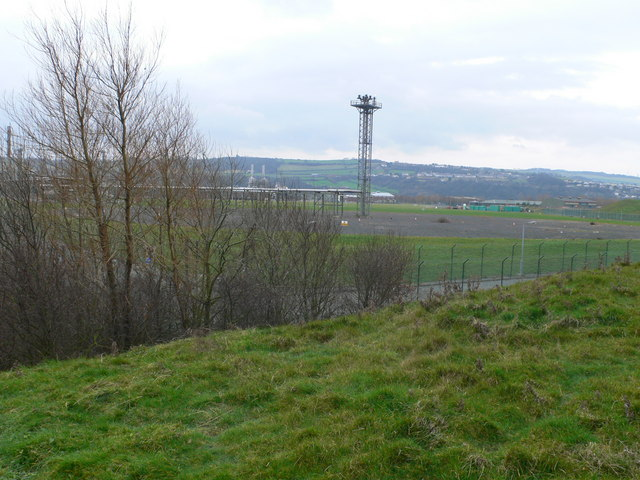 Point of Ayr Gas Terminal This terminal, owned by BHP Billiton Petroleum, processes gas extracted by the Liverpool Bay platforms via a 33 km subsea pipeline. The gas is then supplied to the Powergen combined cycle gas turbine (CCGT) power station, which went into operation at Connah's Quay in July 1996.